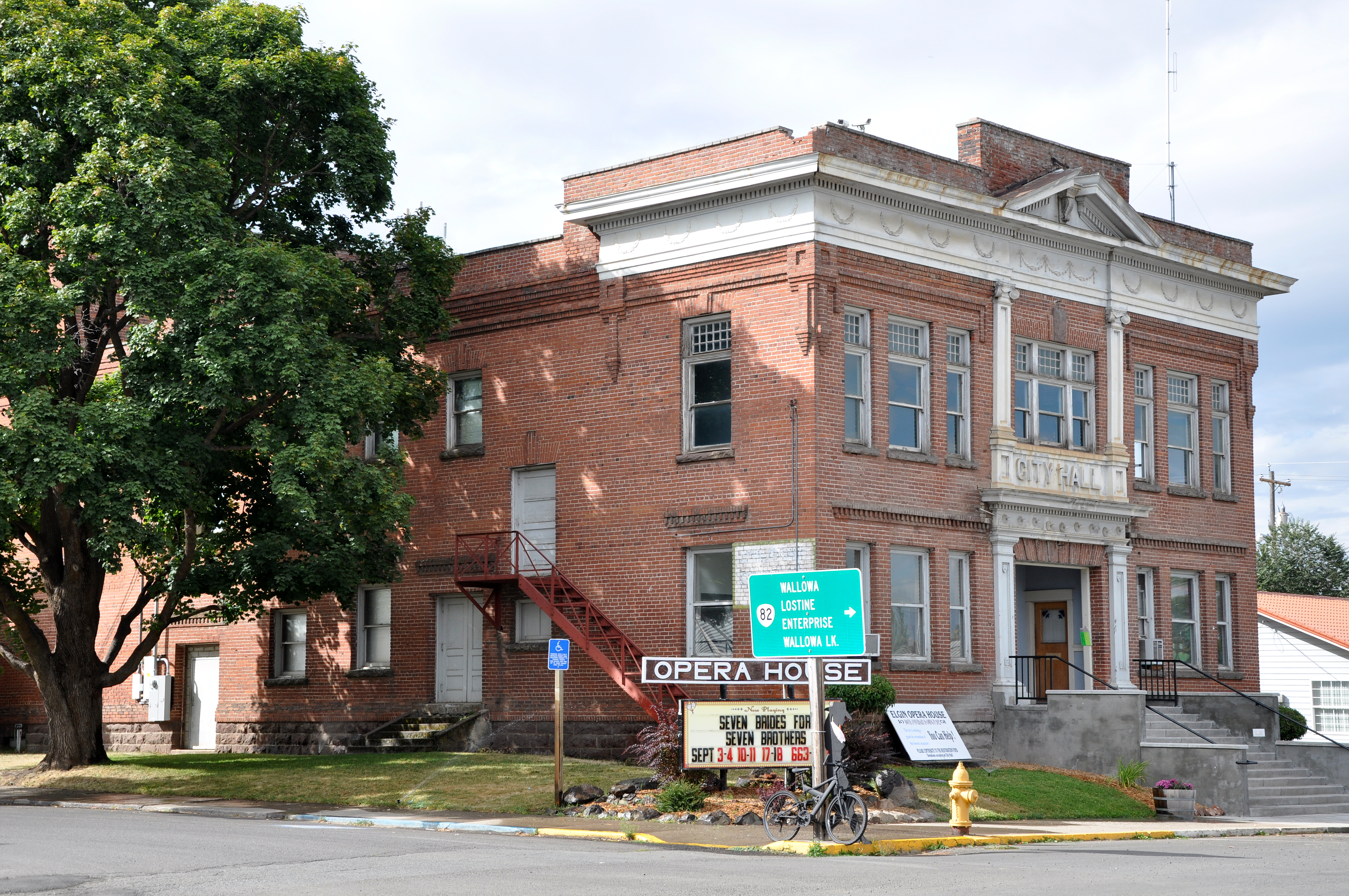 Opera House in Elgin, Oregon, in the United States